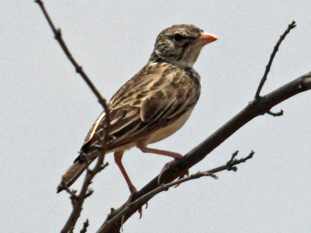 Madagascar Lark (Mirafra hova) - near Morondava, Madagascar